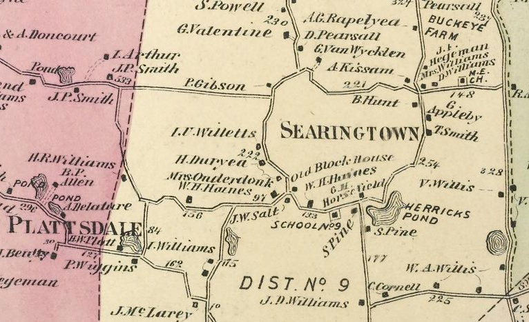 Section of Map of North Hempstead, Queens County (later Nassau County), Long Island, New York. from F. W. Beers Atlas of Long Island, New York. From recent and actual surveys and records. Shows the location of the following: Searingtown, Herricks Pond, School No. 9, property of Isaac Underhill Willets, Plattsdale.